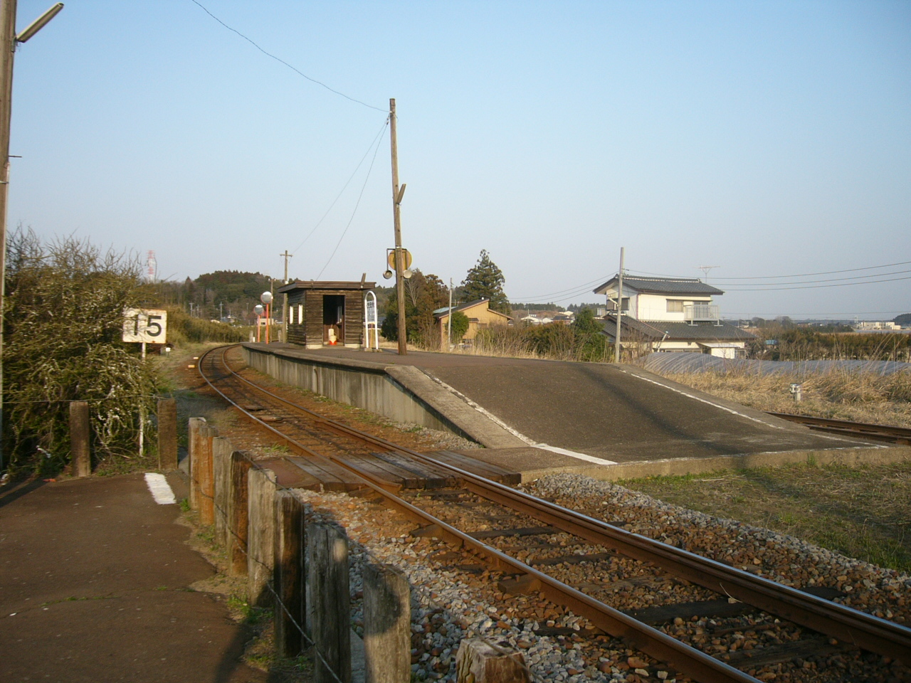 Tomoegawa Station